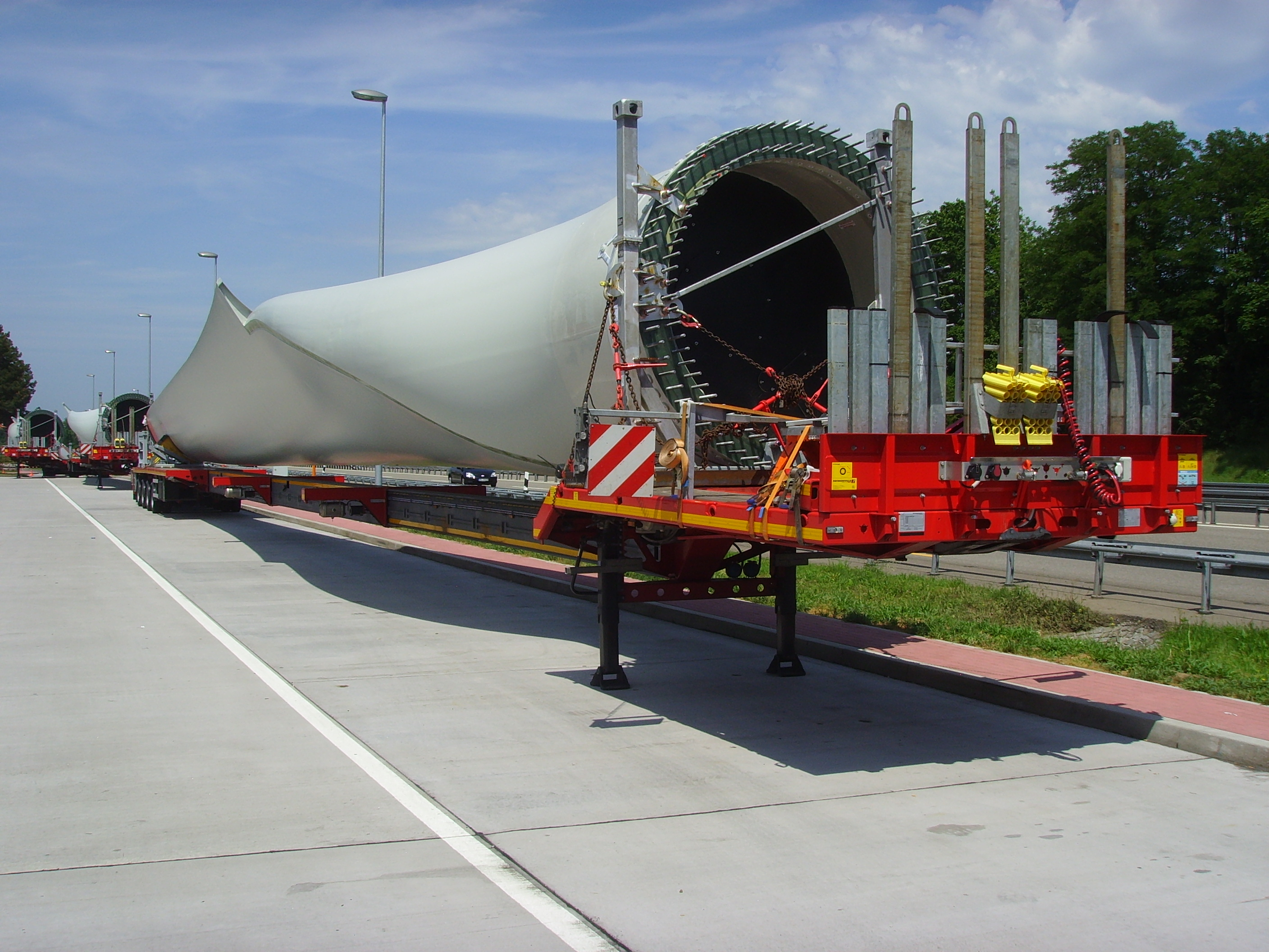 Transport of 1/4 part of a Wind turbine